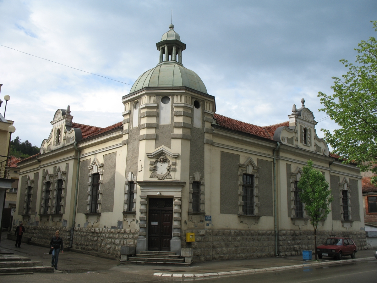 Narodni muzej Toplice (National museum of Toplica) in Prokuplje, Serbia.